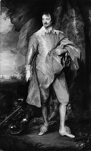 Robert Rich, 2nd Earl of Warwick, potrait by Anthony van Dyck